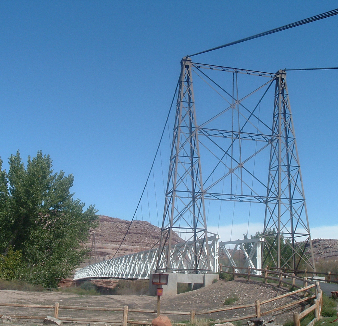 The Dewey Bridge, constructed in 1916. The original bridge that carried Utah State Route 128 across the Colorado River until it was replaced in 1986. Destroyed by a brush fire in 2008. Taken by User:Davemeistermoab